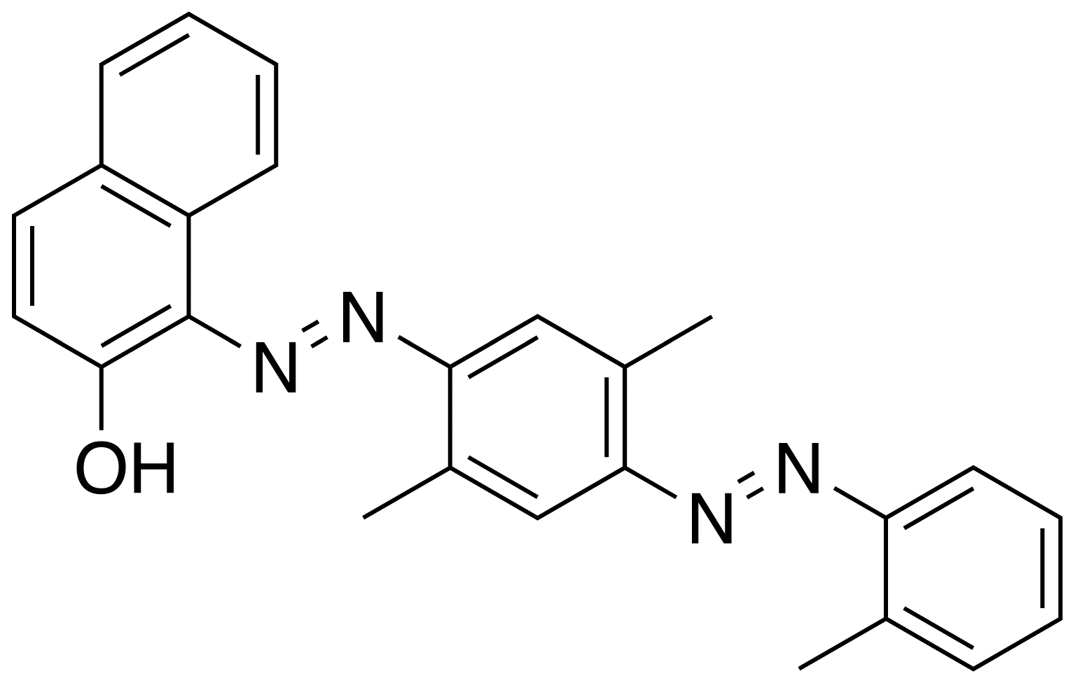 Description: Chemical structure of Solvent Red 26 Author, date of creation: selfmade by Shaddack, 4 February 2006 Source: self-made Copyright: Public Domain (PD) Comments: b/w hires PNG; ChemDraw